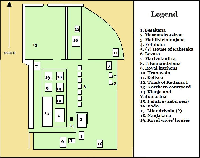 Buildings and layout of the Rova of Antananarivo, Madagascar, in 1828.